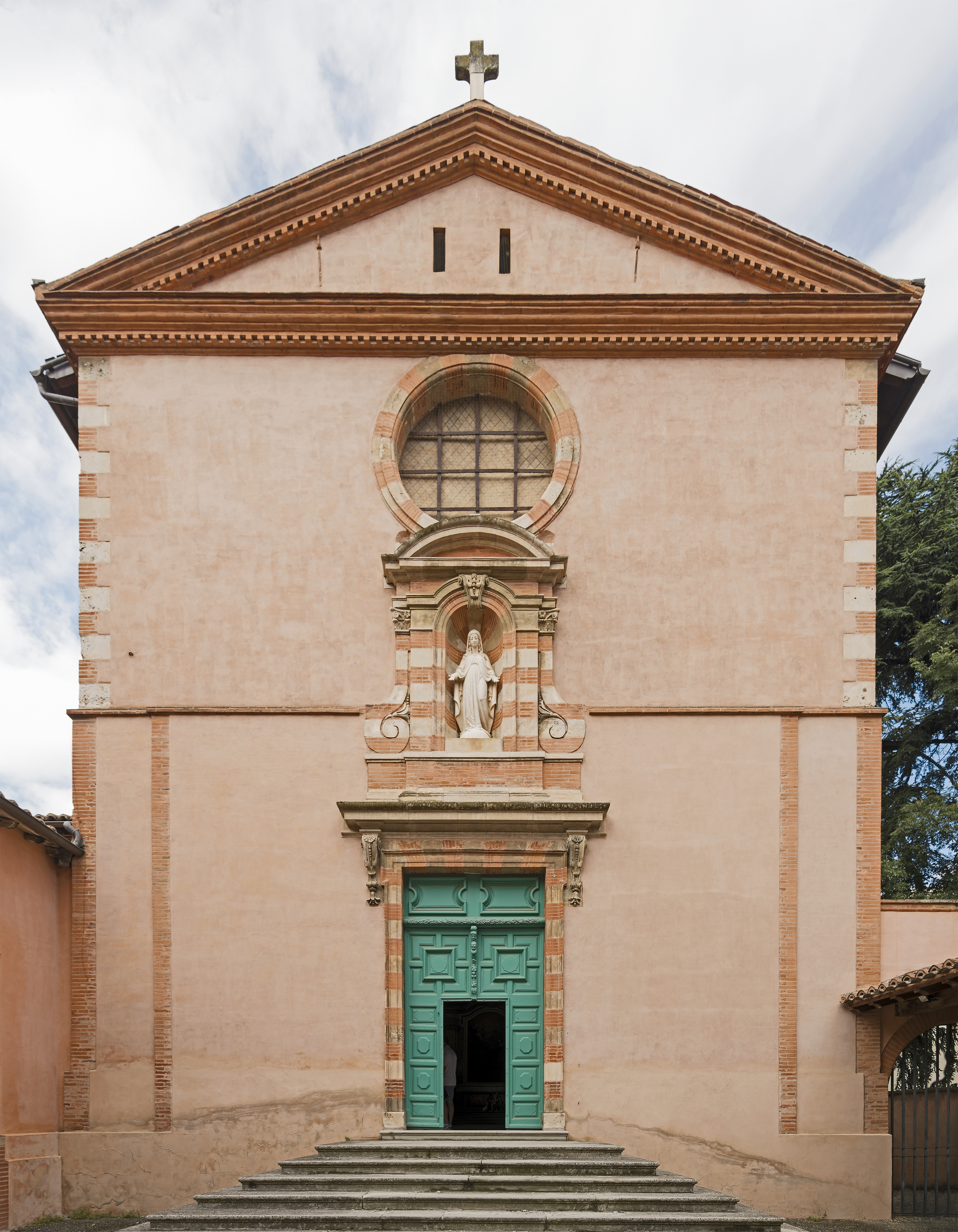 Carmelite chapel built in 1622. Facade, Perigord street in Toulouse. Architect: Didier Sansonnet